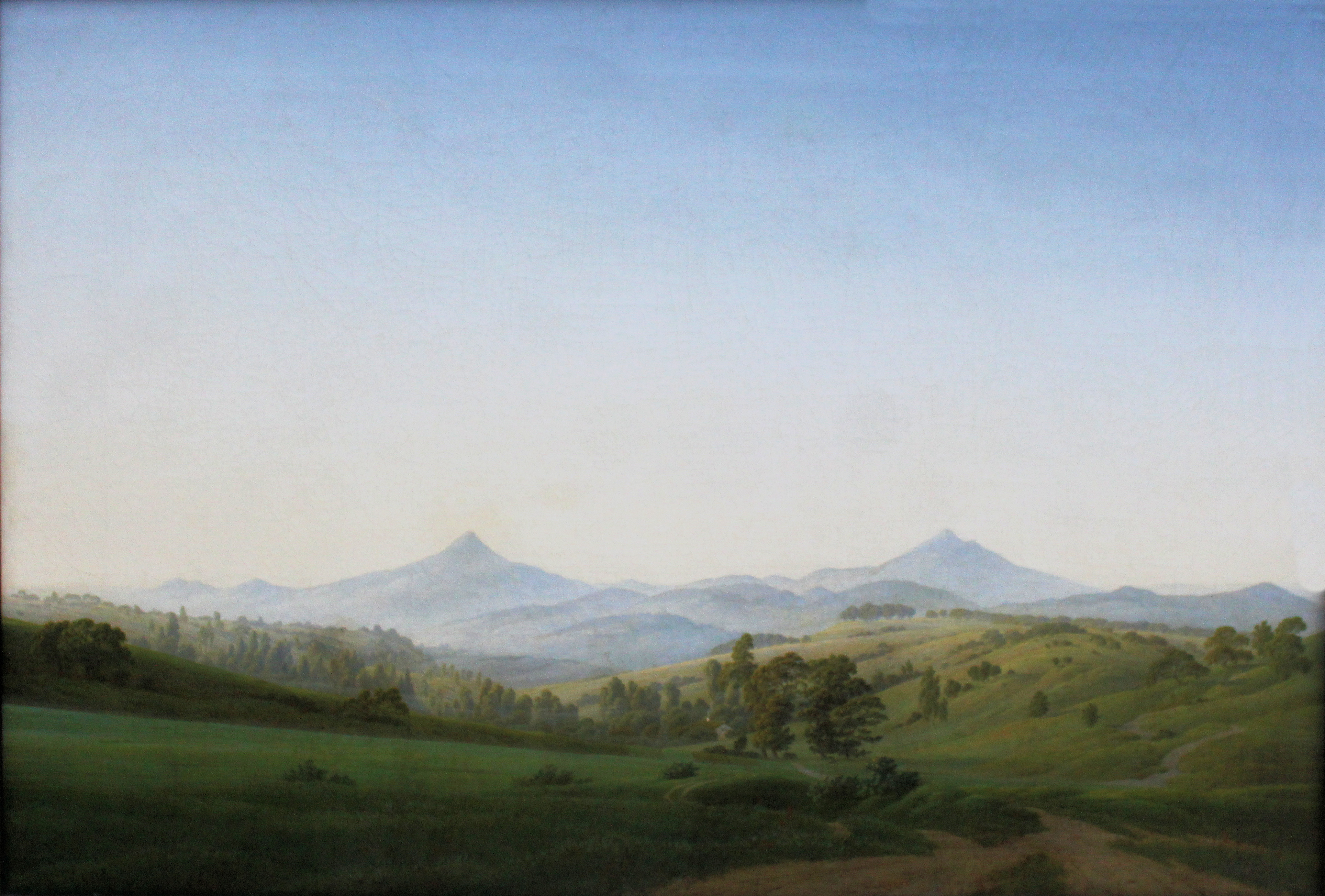 Dresden, Albertinum, Caspar David Friedrich, Bohemian landscape with the Milleschauer mountain